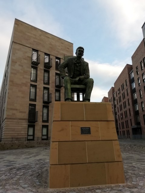 Charles Rennie Mackintosh statue, 2018